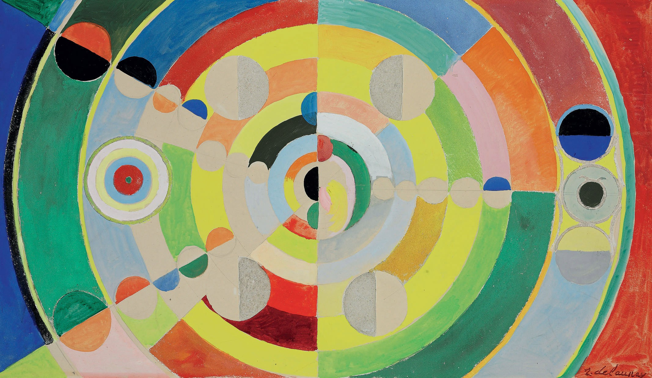 Relief-disques. Signed 'r. delaunay', gouache and sand over pencil on board, image size: 55.2 x 96.8 cm